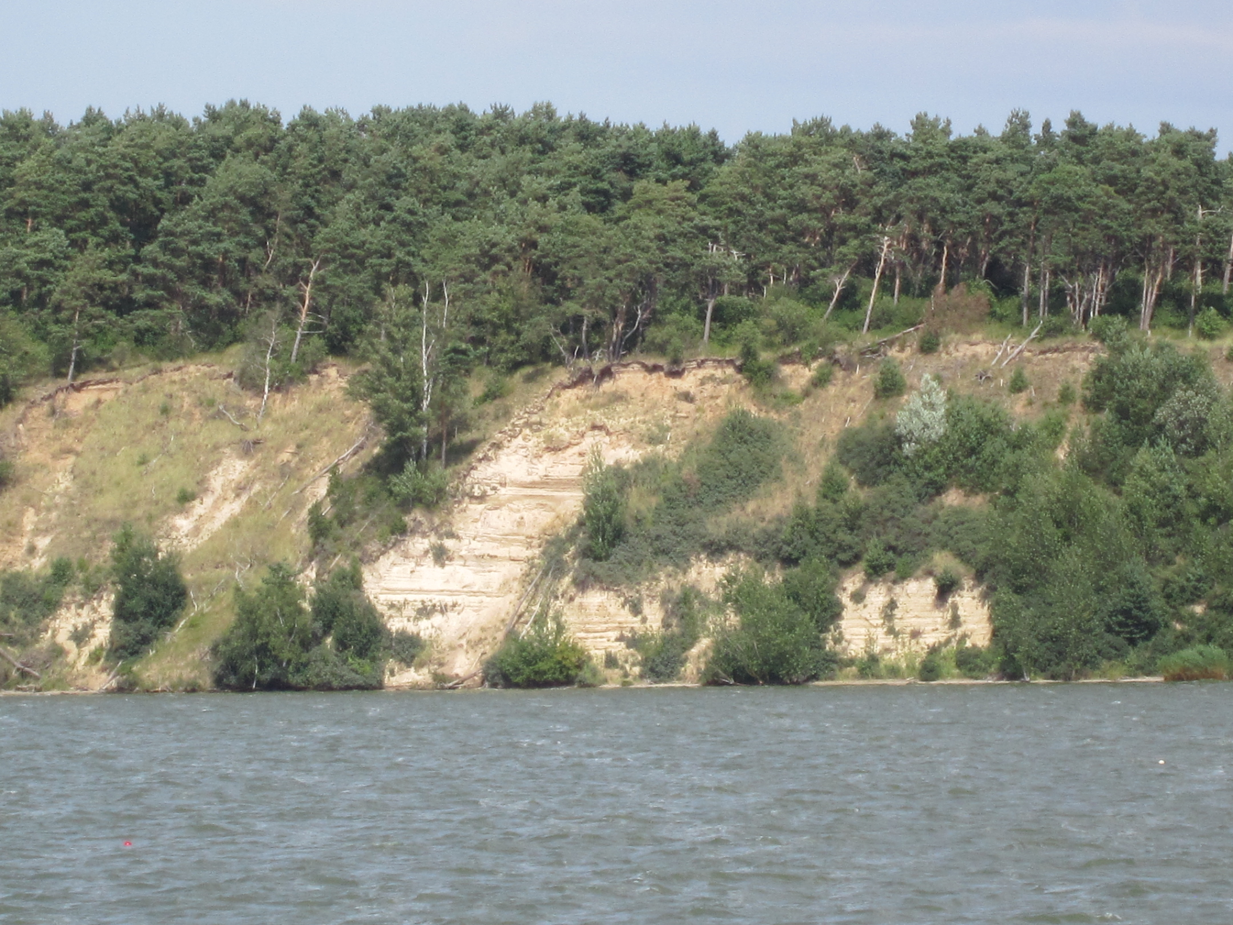 Steep coast on the west side of peninsula Gnitz (Usedom)